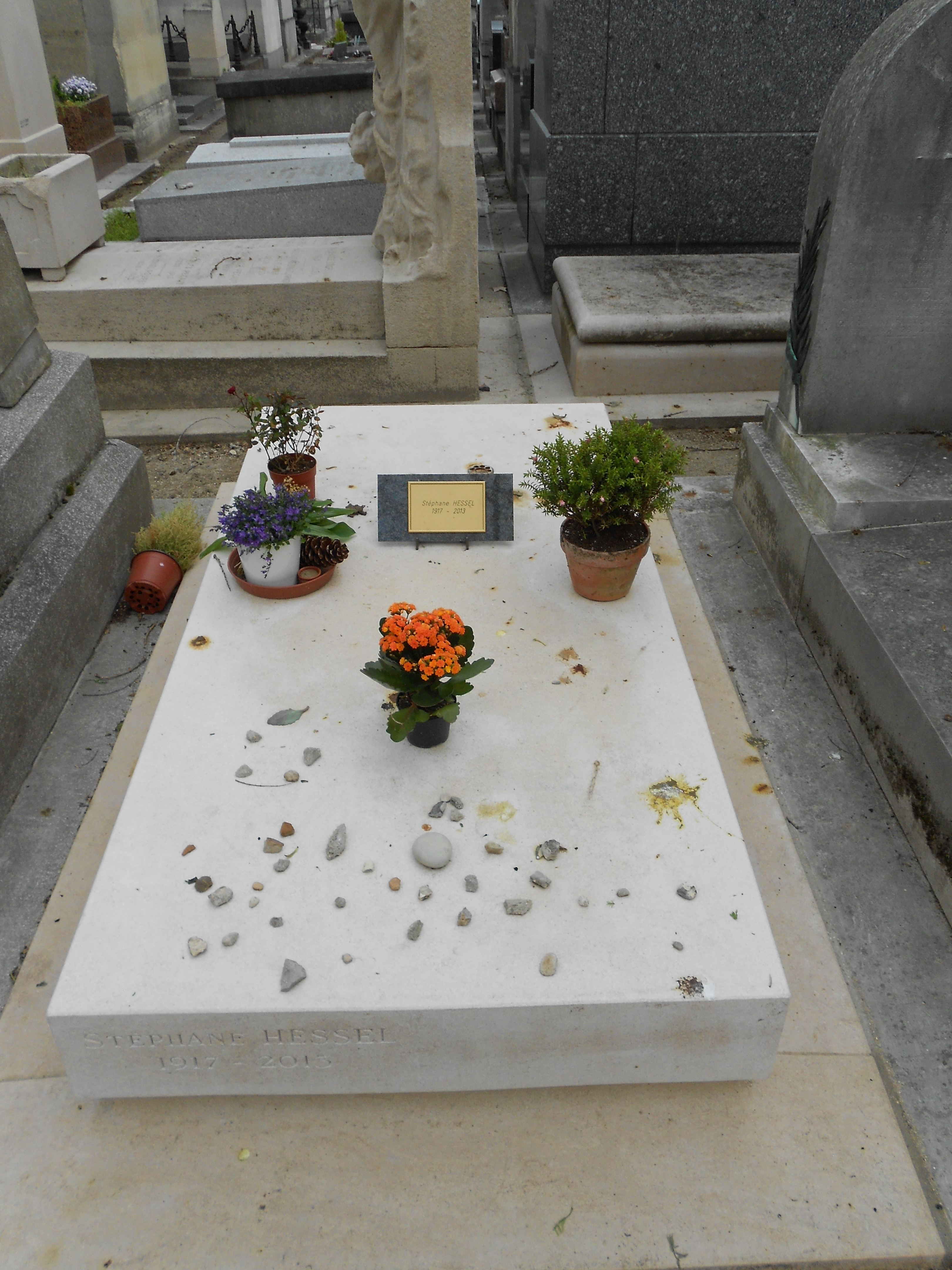 Stéphane Hessels grave on the graveyard of Montparnasse, Paris, France